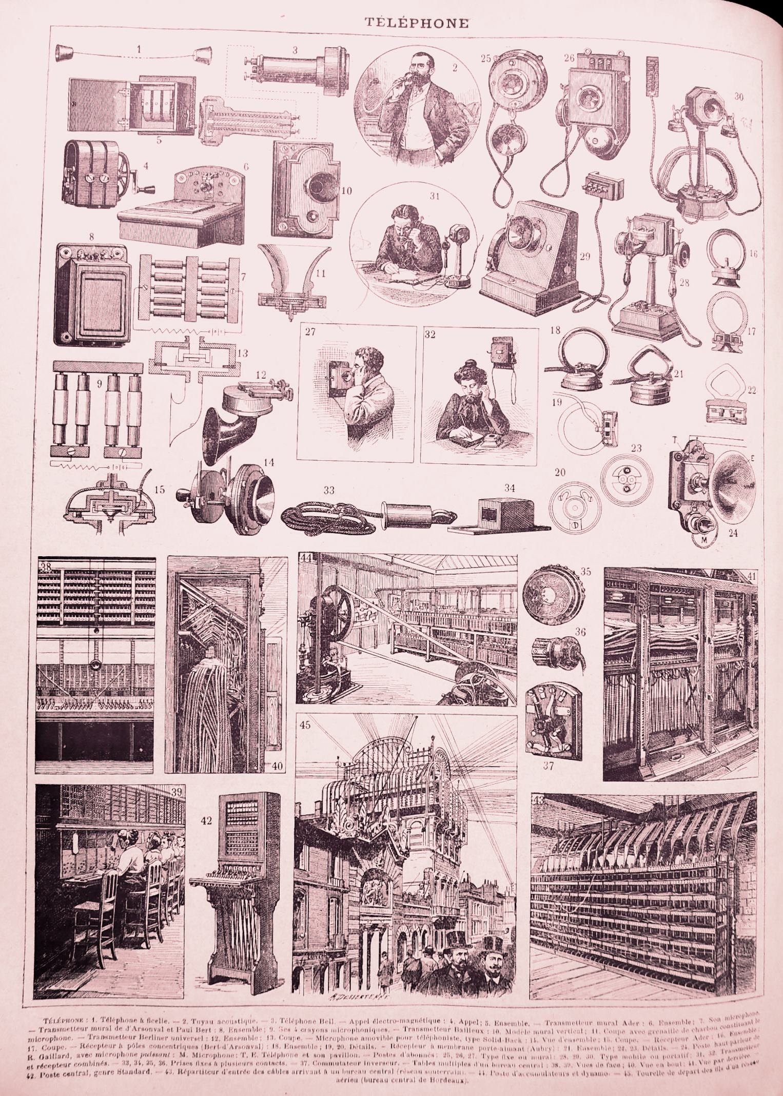 Telephony around 1900